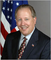 Assistant Secretary Thomas A. Shannon, Jr., head of the Bureau of Western Hemisphere Affairs.